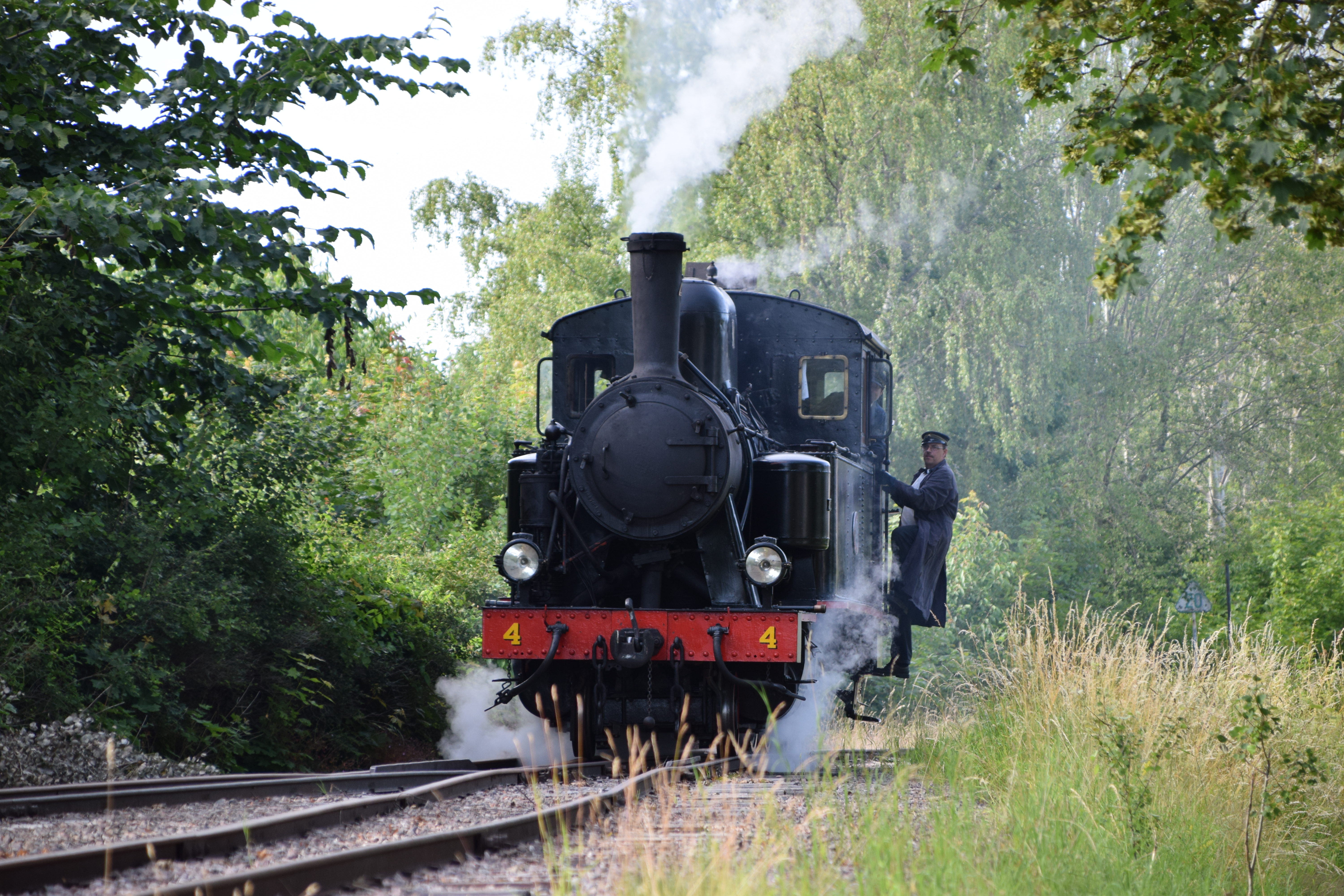 Steam locomotive on the heritage railway Skara-Lundsbrunns Järnvägar at Lundsbrunn station.